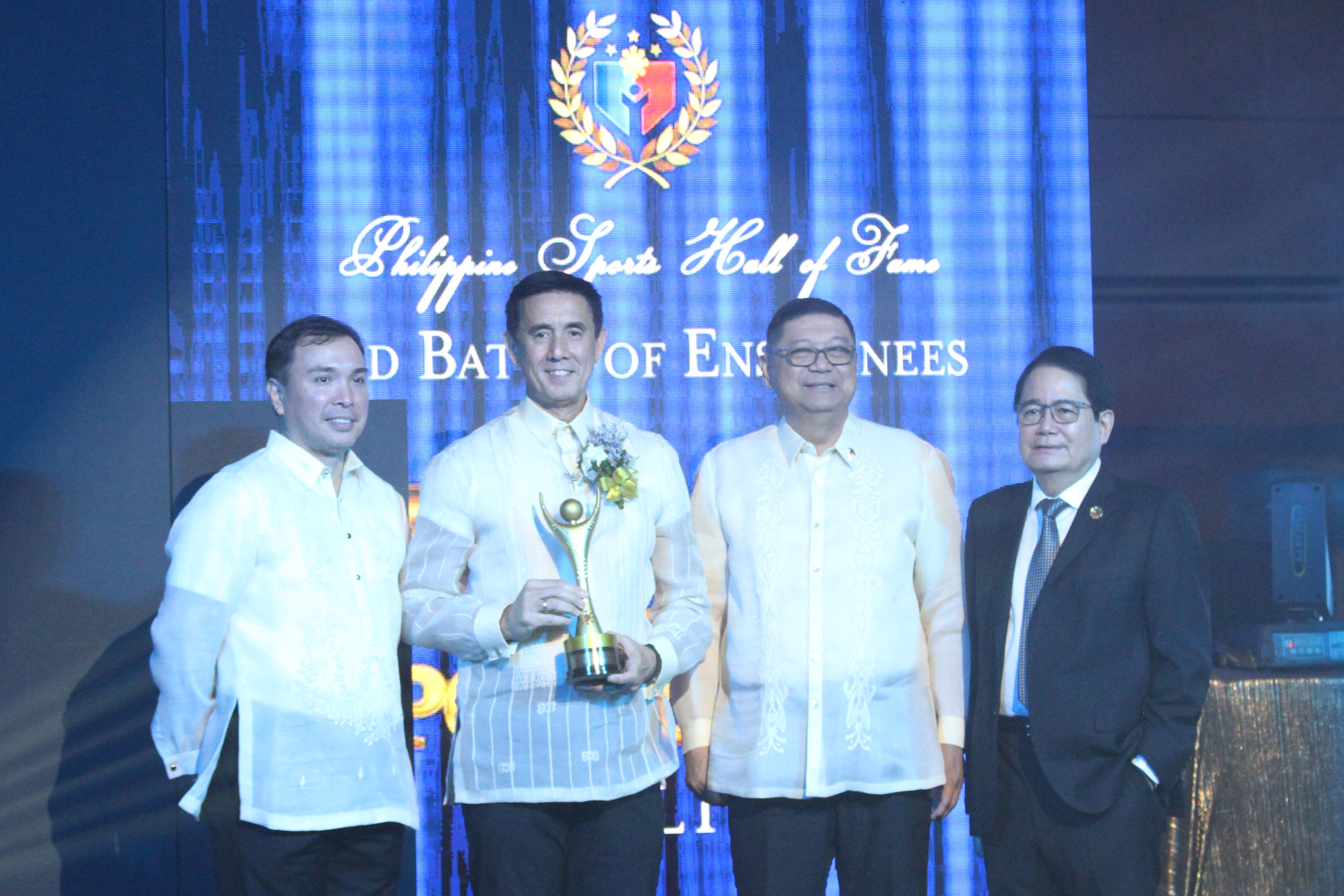 Bemedalled bowler Rafael "Paeng" Nepomuceno (second from left) was among the 10 outstanding athletes enshrined in the Philippine Sports Commission (PSC) Hall of Fame during the awarding ceremony at the Philippine International Convention Center in Pasay City on Thursday (November 22, 2018). Aside from winning the World Cup of Bowling four times, Nepomuceno also won the World's Invitational Tournament in 1984 and the World Tenpin Masters championship in 1999. From left are Games and Amusements Board (GAB) Chairman Abraham Mitra, PSC Chairman William Ramirez and Philippine Olympic Committee President Ricky Vargas.